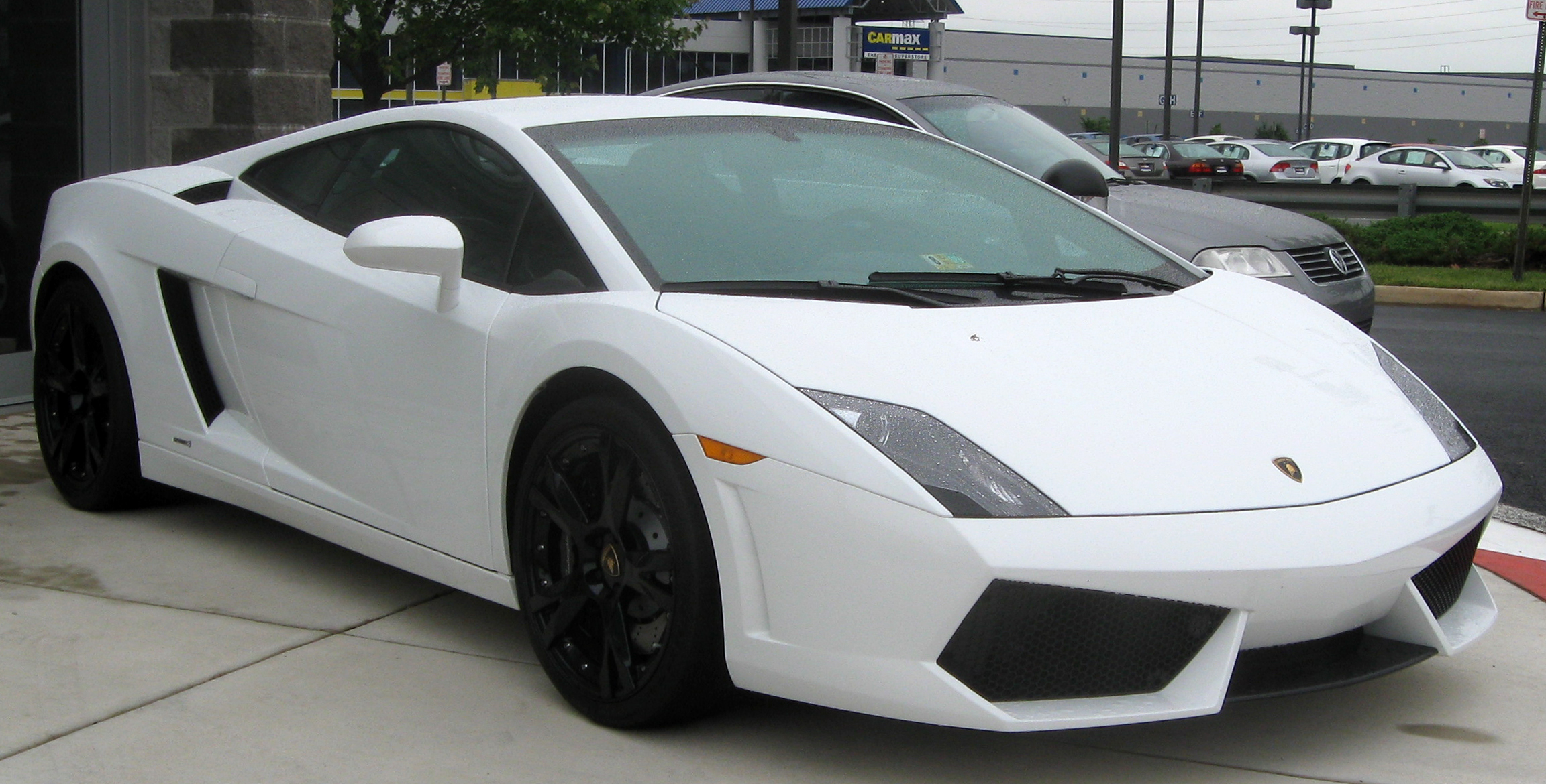 Lamborghini Gallardo photographed in Sterling, Virginia, USA.